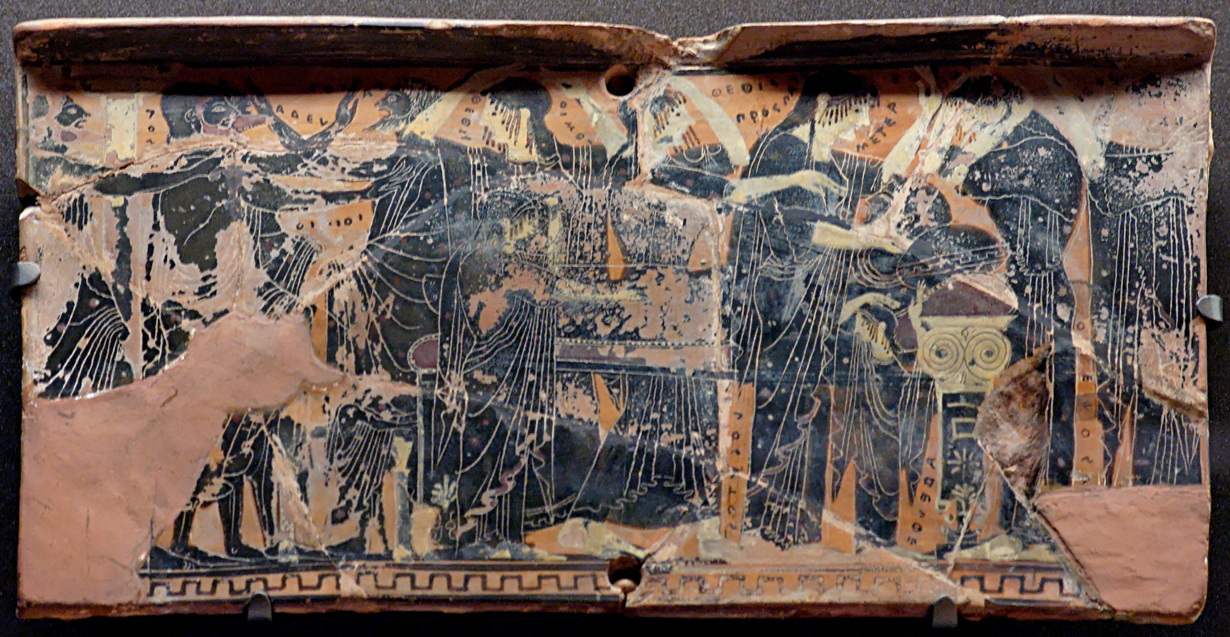 Prothesis (mourning of the dead) scene . Attic black-figure pinax (plaque), ca. 500 BC. Found in Athens.